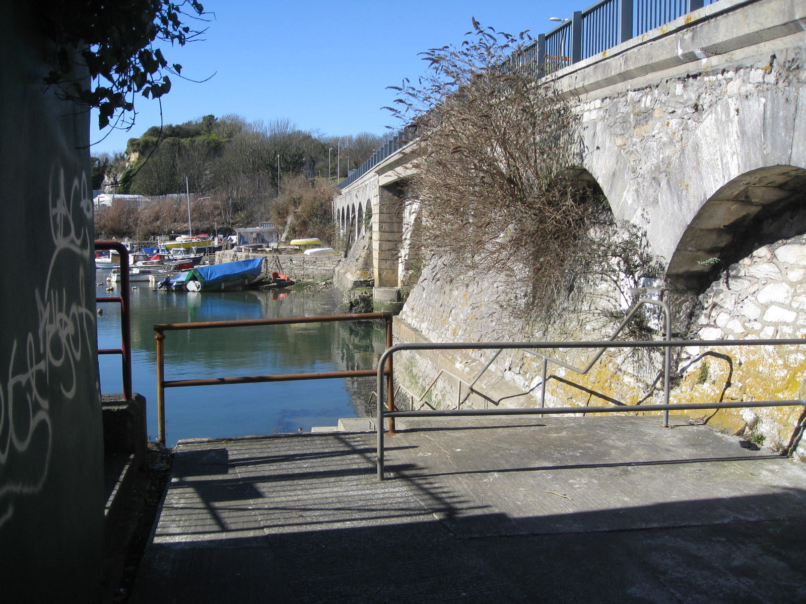 Stonehouse Bridge This alleyway is small, narrow and for pedestrians only, but gives public access to the creek below Stonehouse Bridge. There are a set of steps down to the foreshore or for access to a boat when the tide is in. The road going across Stonehouse Bridge is the A374 a major and very busy main road through Plymouth. The bridge was formerly was a toll bridge known locally as 'ha'penny' bridge.